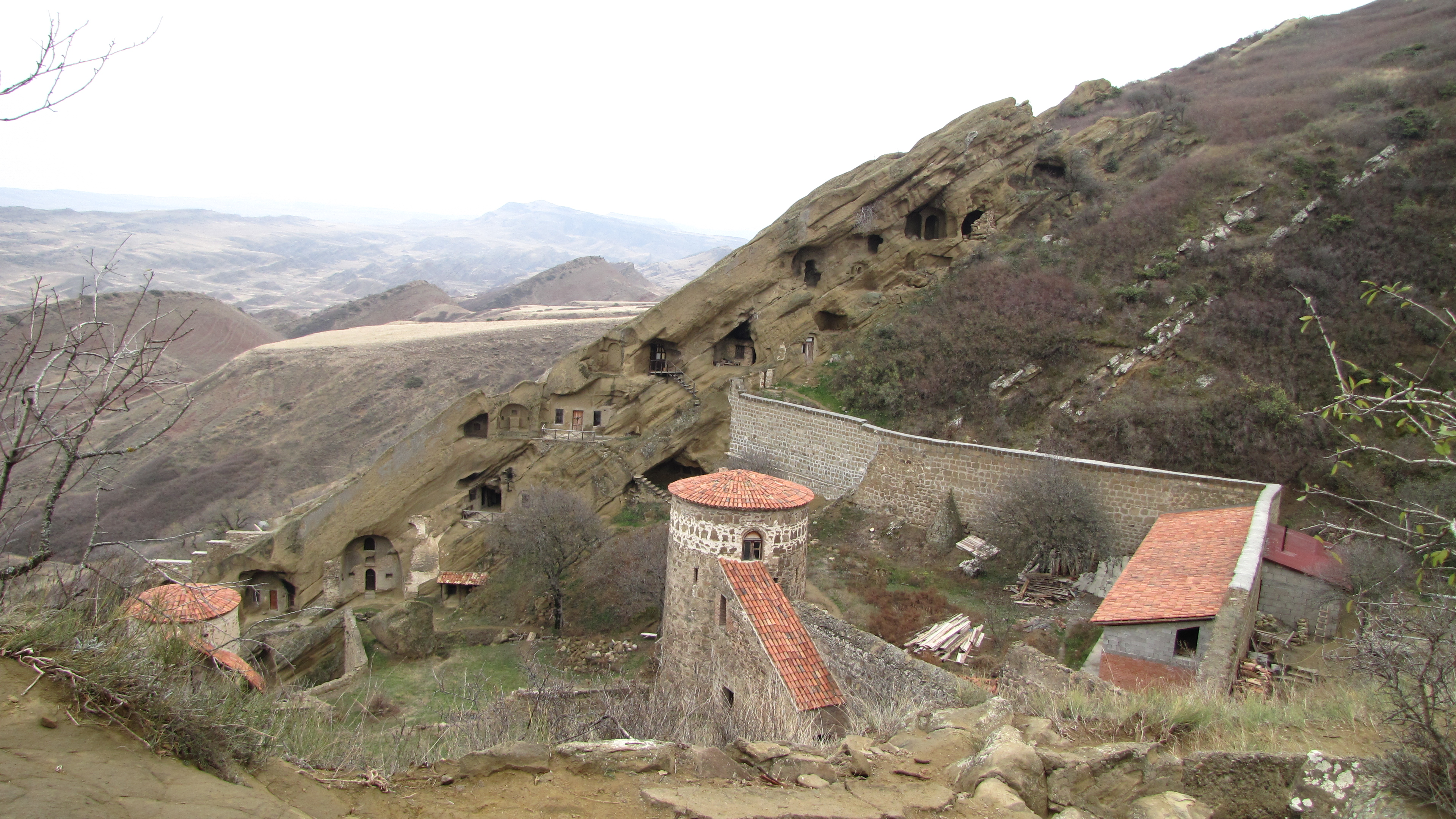 David Gareja monastery complex